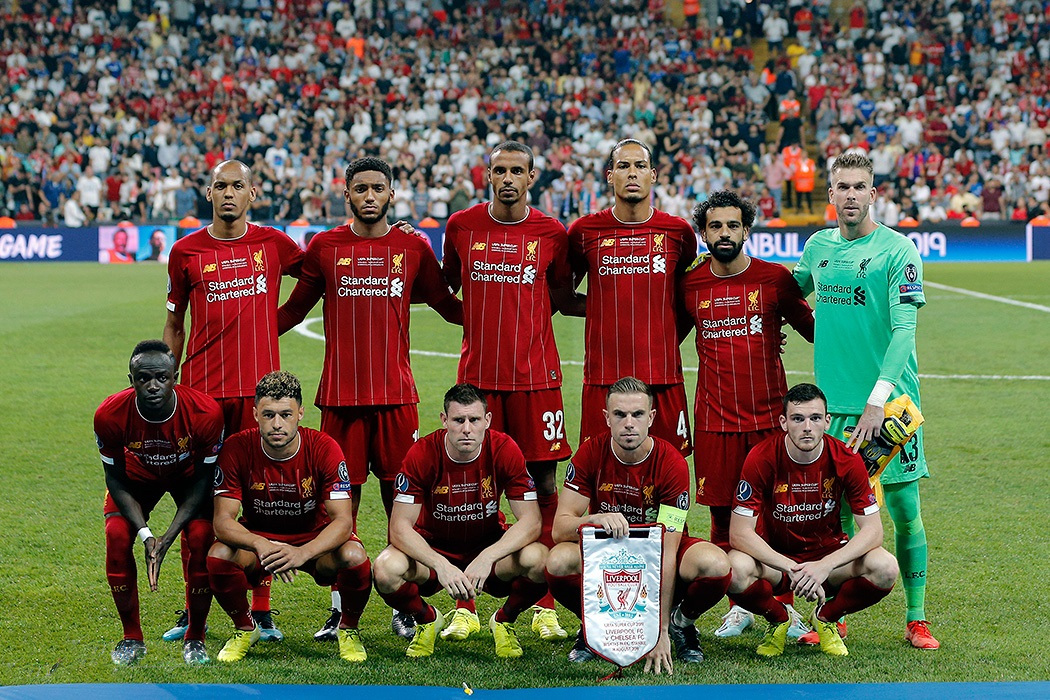 Liverpool vs. Chelsea, 2019 UEFA Super Cup